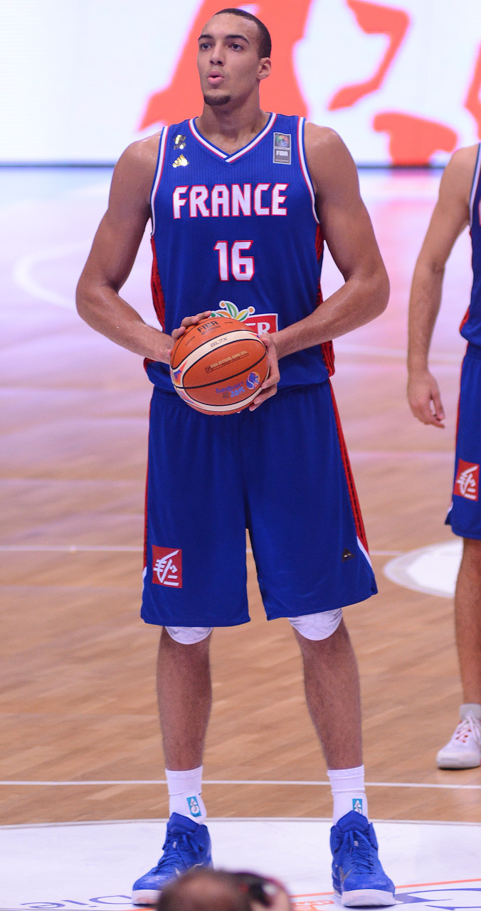 Rudy Gobert playing for France in friendly game against Germany on 30 August 2015.